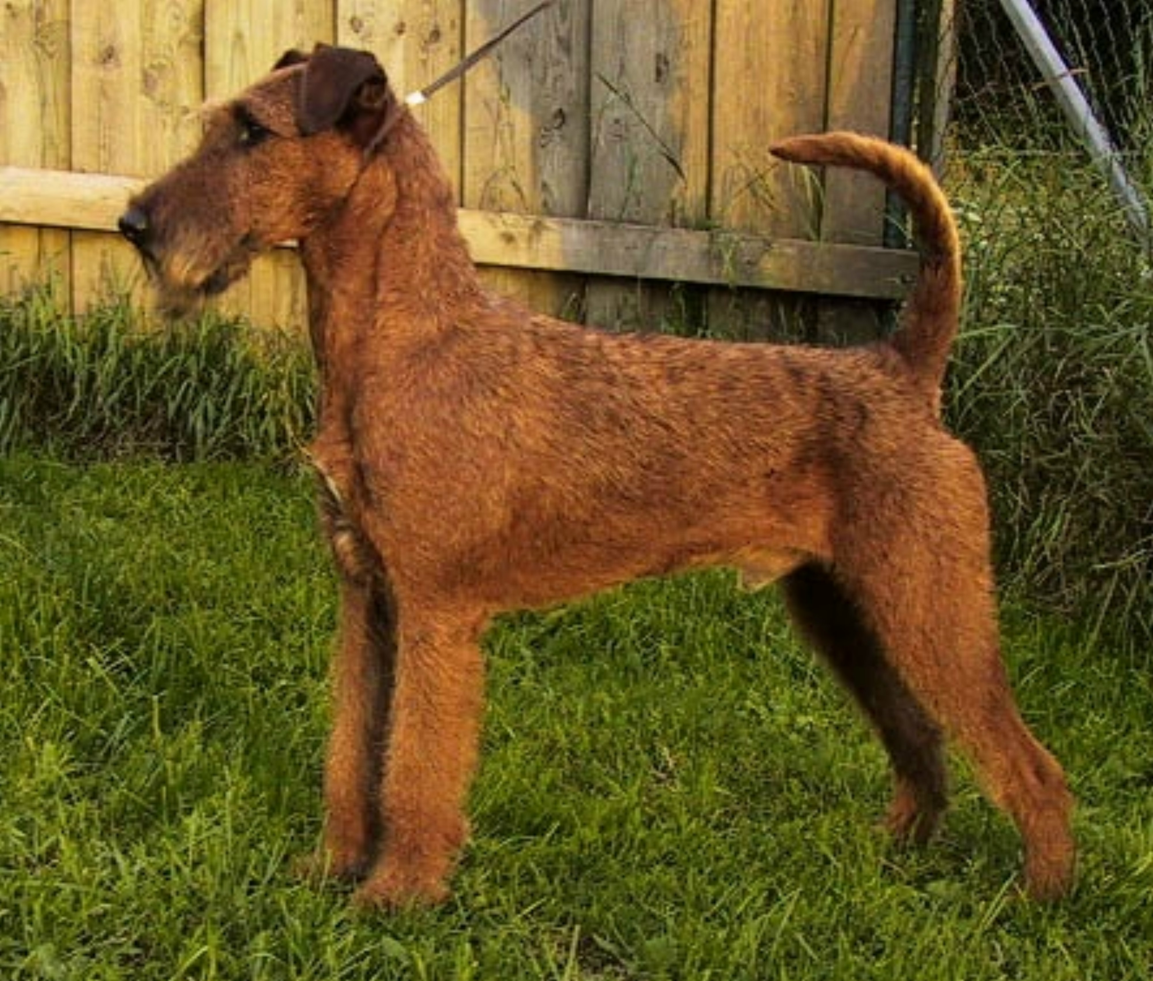 Irish Terrier